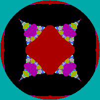 Complex recursive fractal, power -3